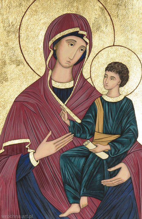 "Our Lady with the Child", a cracovian-style Hodegetria by Małgorzata Wrochna.